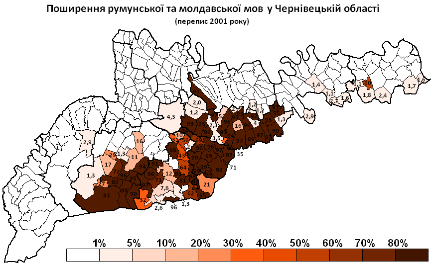 Romanian and Moldovan as native languages in Chernivetska oblast, 2001 census